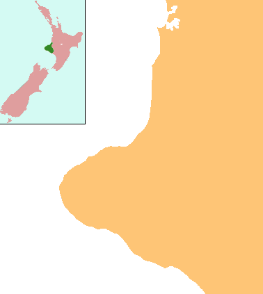 Locator map for Taranaki, New Zealand